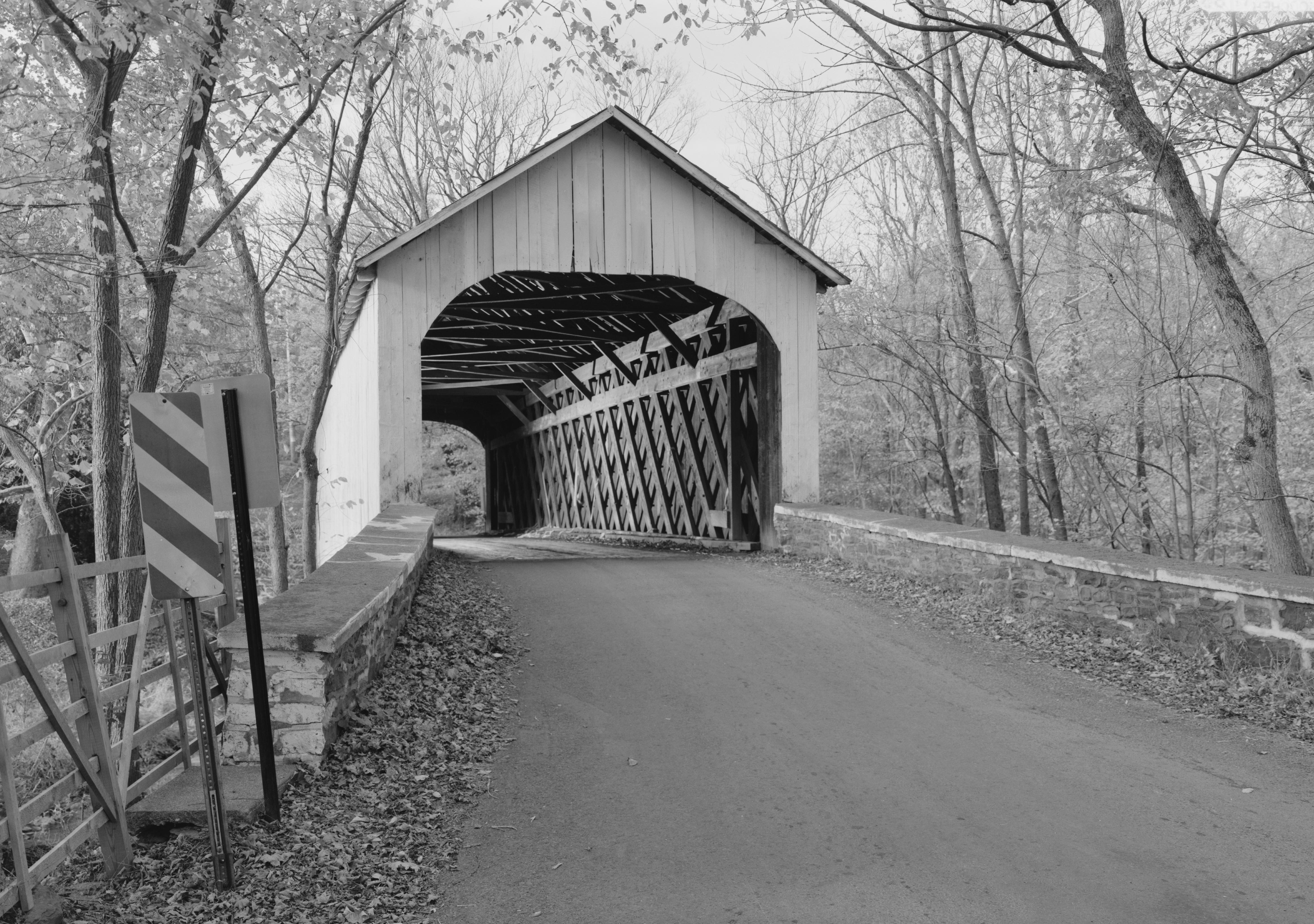 Loux Covered Bridge, Carversville-Wisner Road across Cabin Run, Pipersville (Bucks County, Pennsylvania)